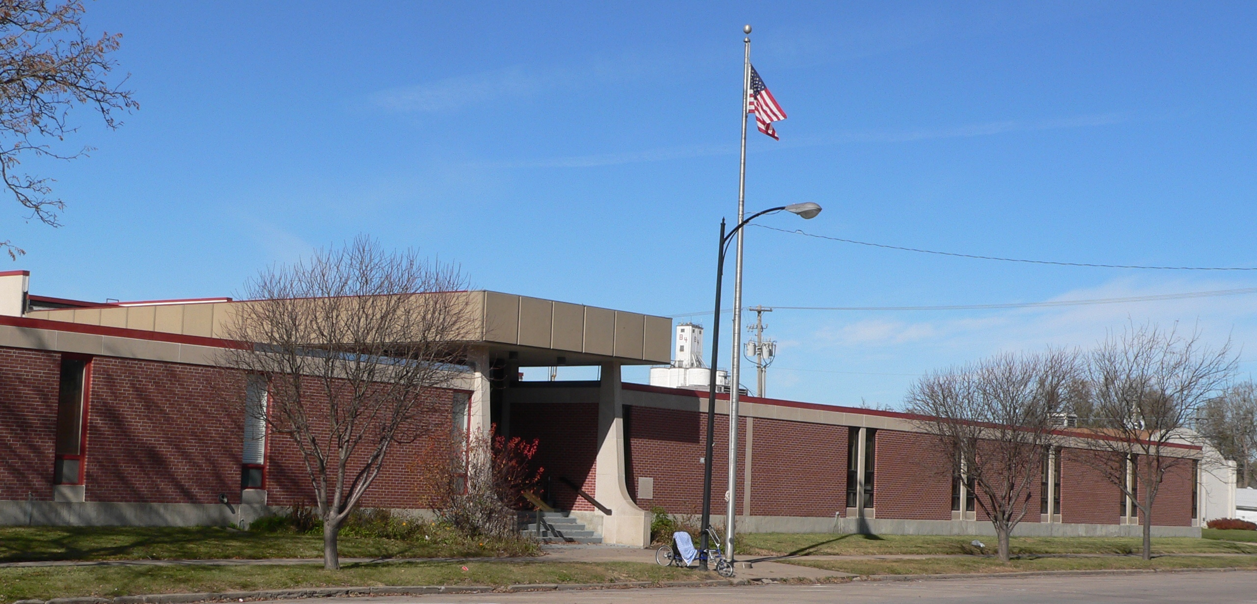 Buffalo County Courthouse, located at 1512 Central Ave in Kearney, Nebraska. The building was constructed in 1974.